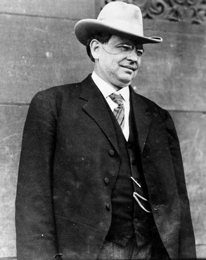 Henry D. Hatfield, half-length portrait, standing, facing right Photo is cropped to remove white border in original.